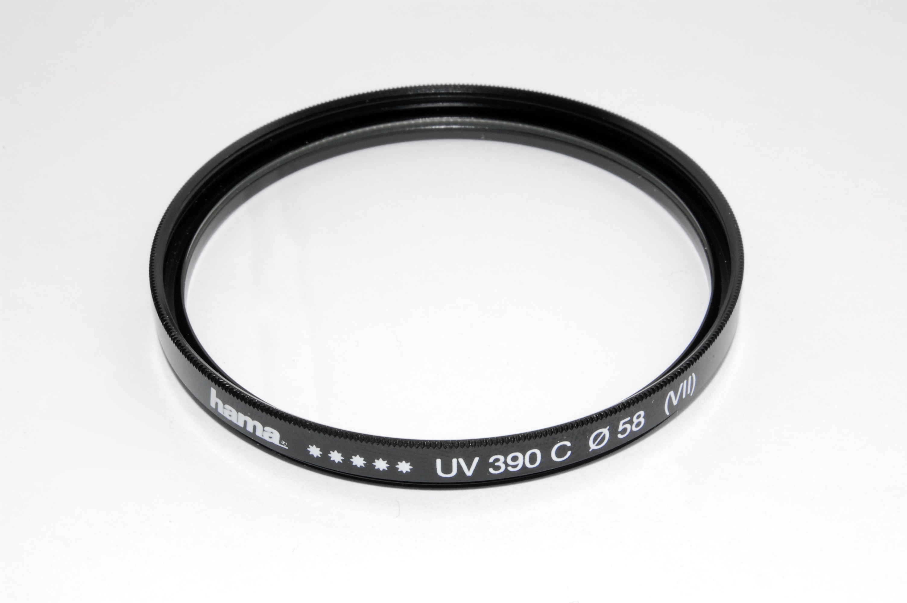 A hama UV filter.